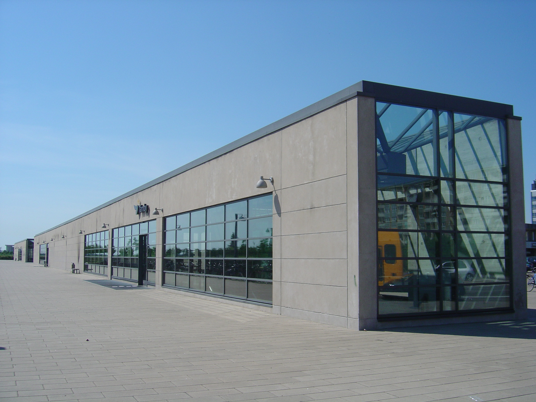 Tårnby station is a train station on Amager, Copenhagen. Seen from southeast side, next to Øresundsmotorvejen and Englandsvej.